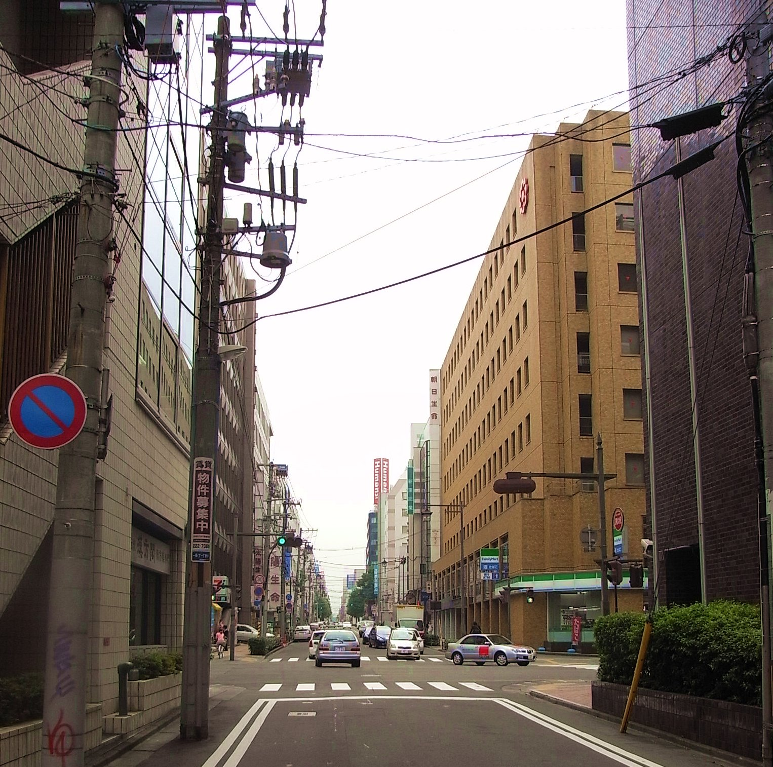 Mimami-machi (South Town) of Sendai. Ichibanchō 2 chōme, Aoba ward, Sendai, Miyagi prefecture, Japan. Northward from the crossing with the Minami-machi Avenue (Minami-machi Dōri). Minami-machi and Mianmi-machi Dōri are defferent streets.